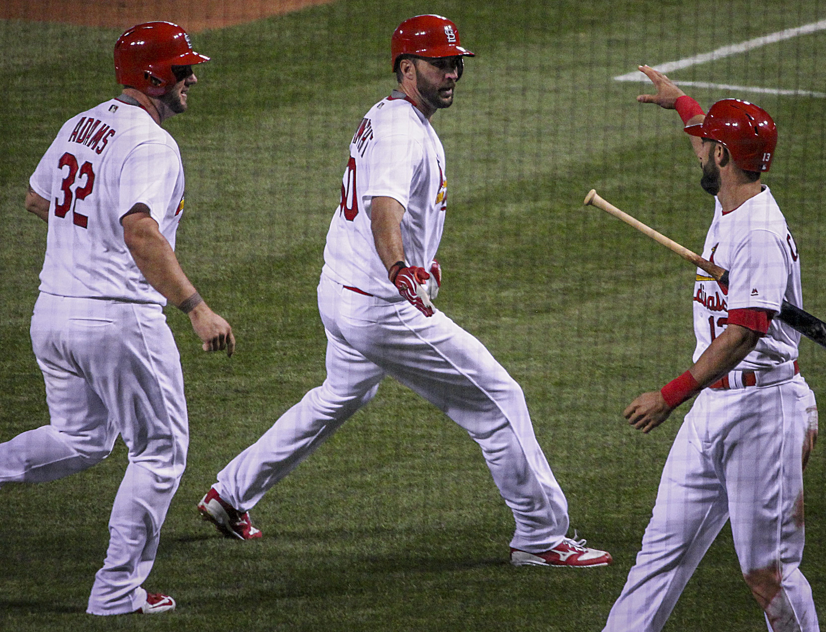 (From left to right) Matt Adams, Adam Wainwright and Matt Carpenter of the St. Louis Cardinals.